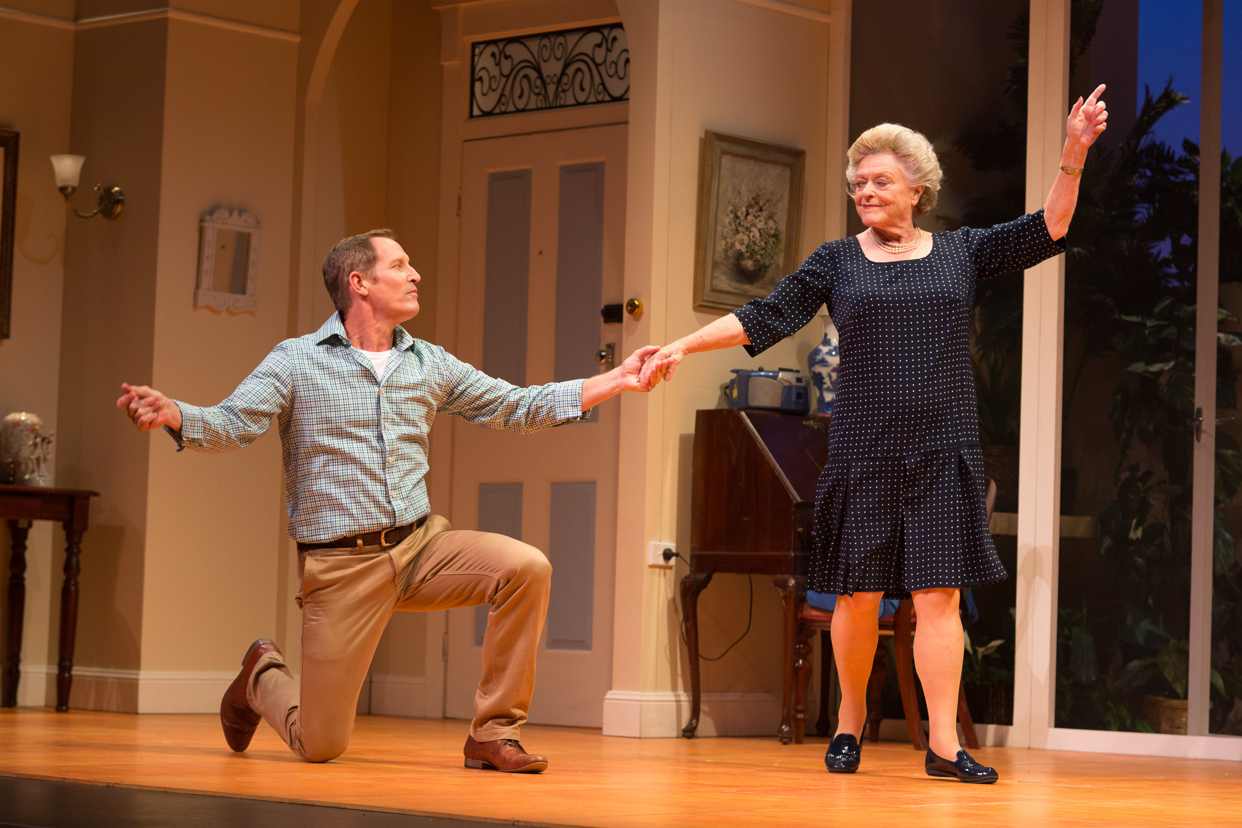 Todd McKenney and Nancye Hayes SIX DANCE LESSONS IN SIX WEEKS -18 Photo by Clare Hawley